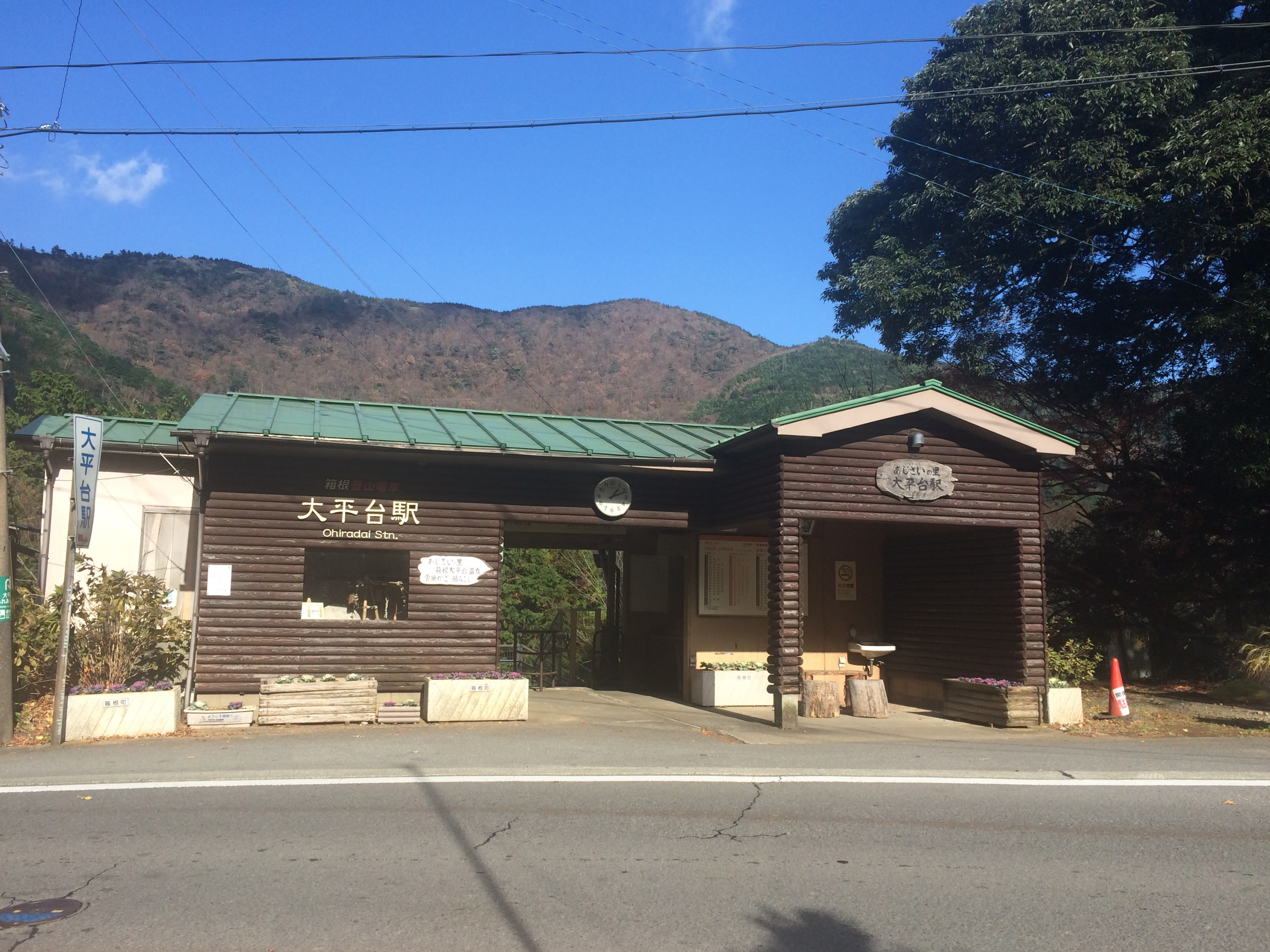 Ohiradai Station on the Hakone Tozan Railway Line